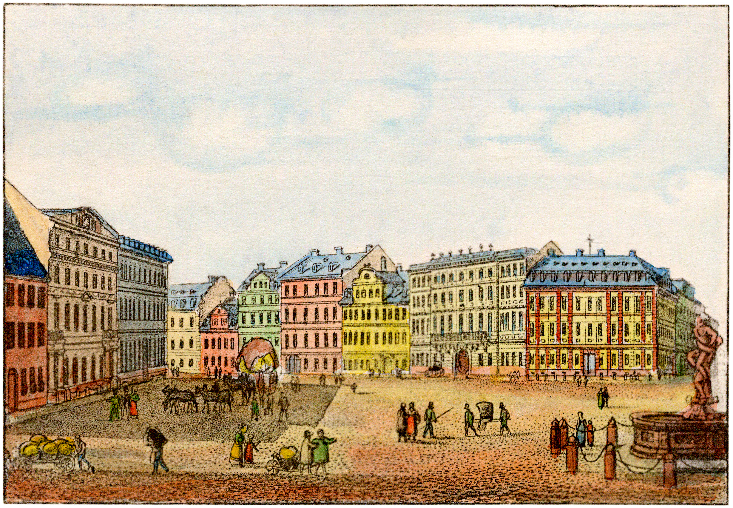 Frankfurt on the Main: The Rossmarkt (Horse Market) at Frankfurt a/m.